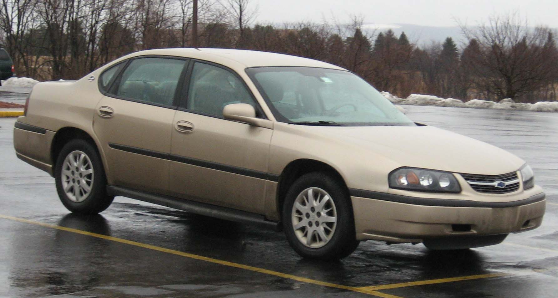 2000-2005 Chevrolet Impala photographed in USA.